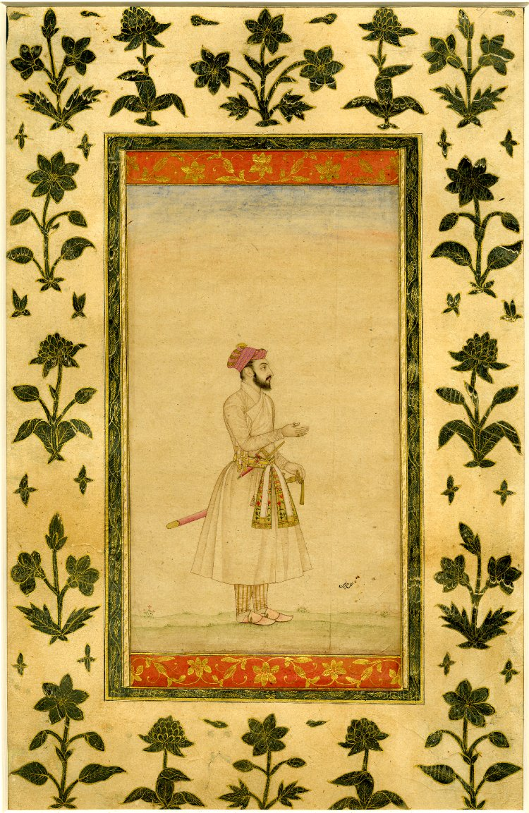 Album leaf, removed from album; painting. Portrait. Jaʿfar Xán. On paper. See 1920,0917,0.13 for description of album